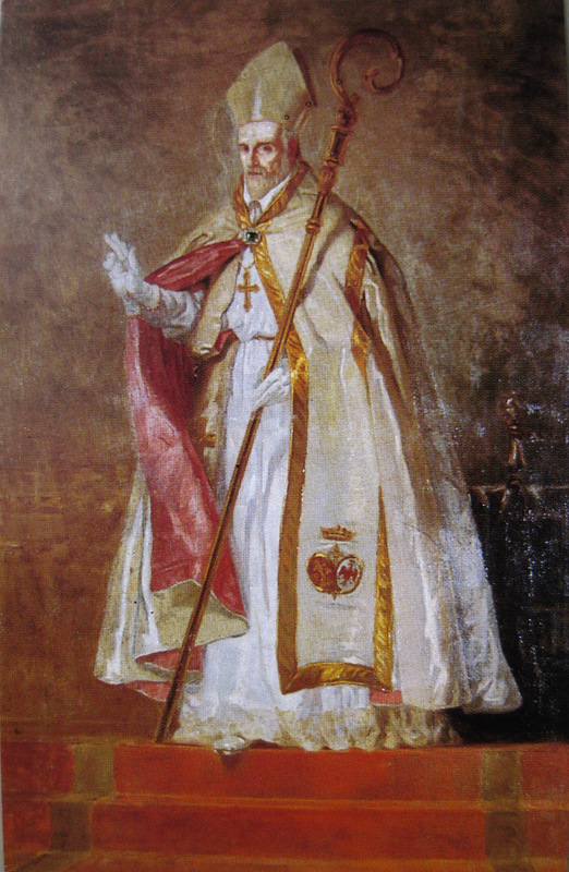 Picture of St Alexander Sauli as Bishop